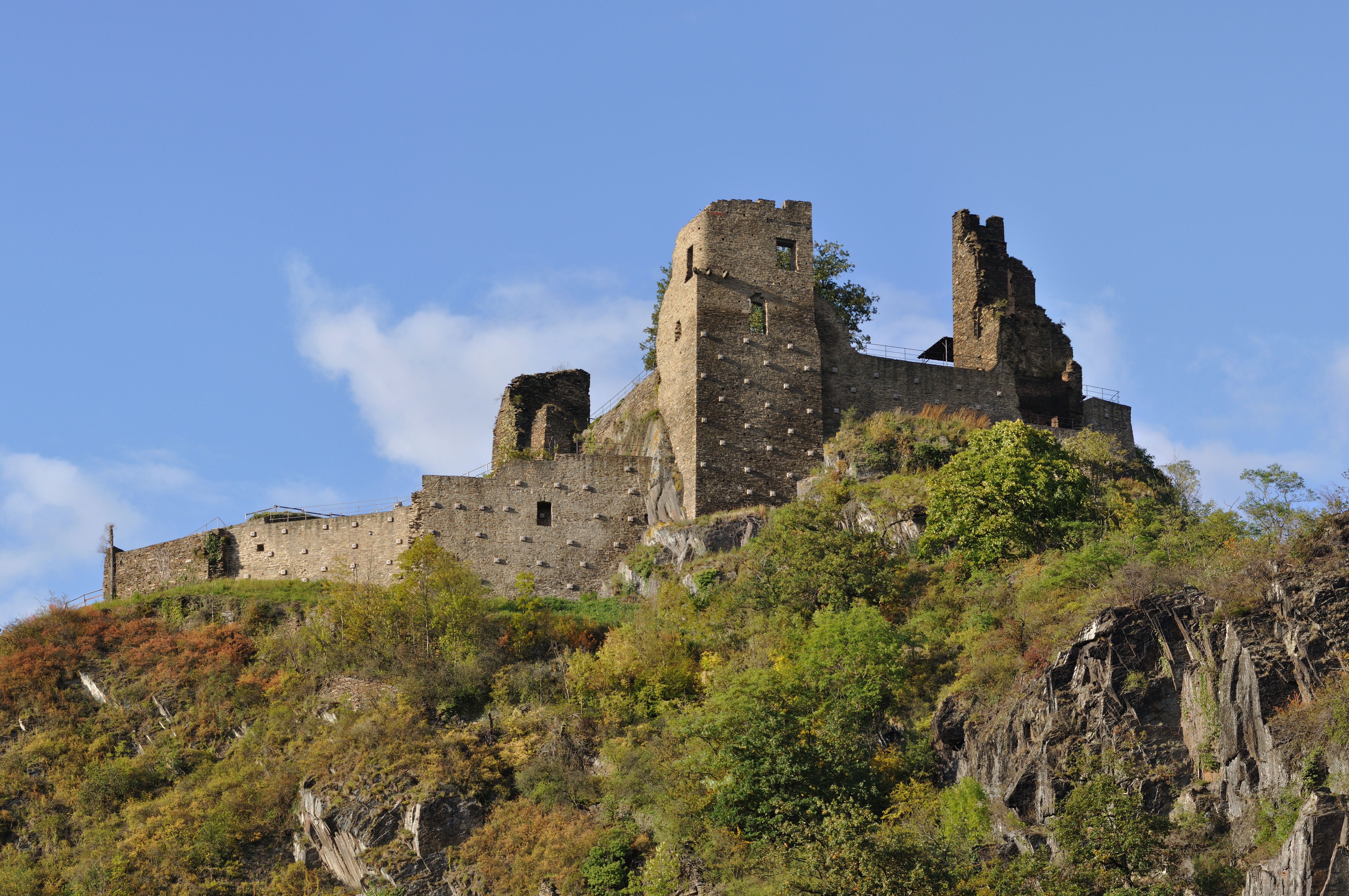 Burg Are, Altenahr, Germany. View from south.